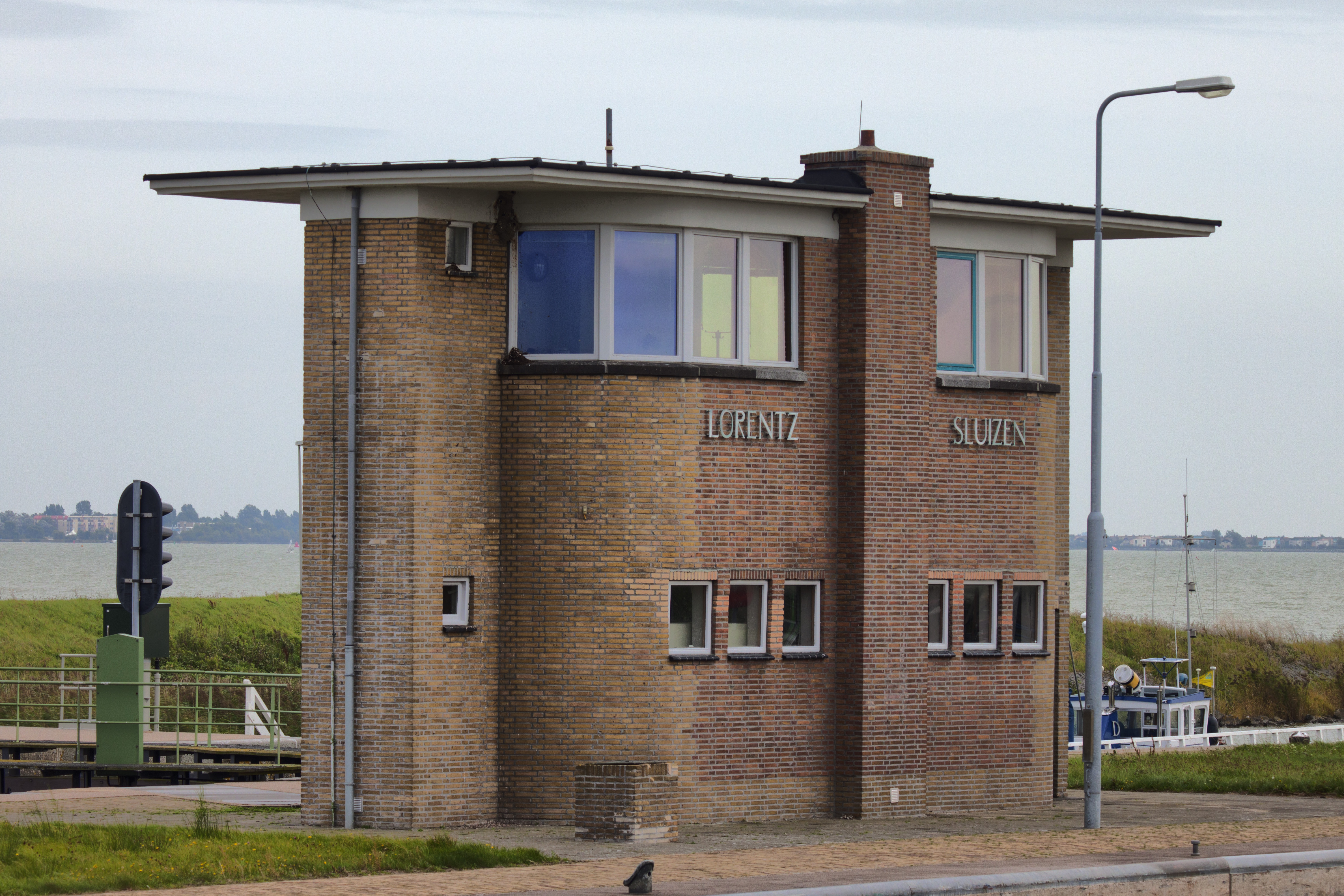 Customs building from the Lorentzsluizen in Kornwerderzand, the Netherlands